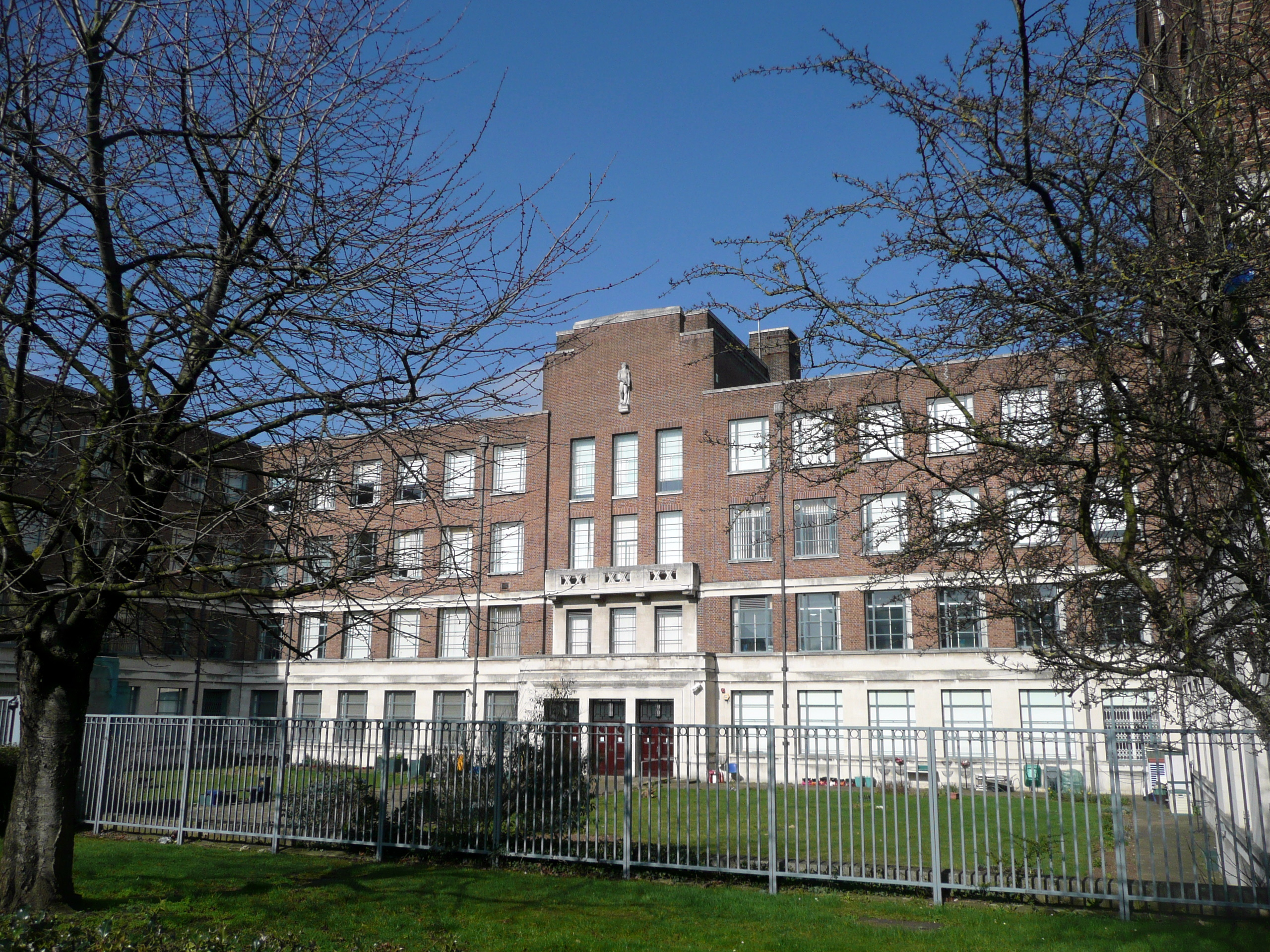 Reading College, Kings Road, Reading. Designed by Lanchester and Lodge and built as a technical college in 1950-5. Pevsner described it as "Terrible, in the tamest squared-up Neo-Georgian of between the wars"